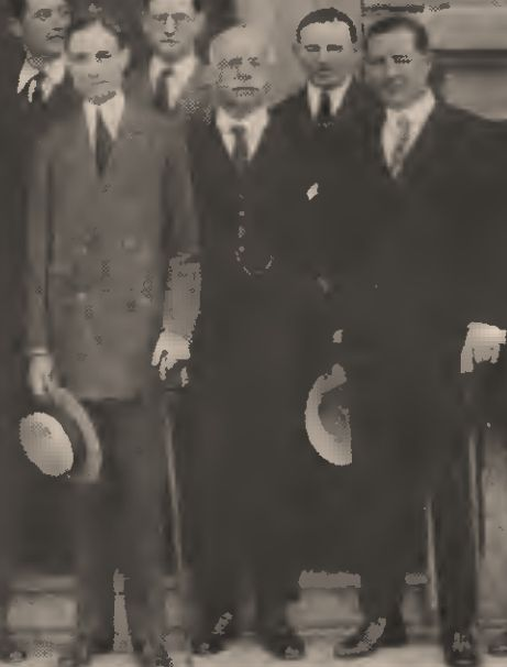 Gebhard Ernst Wilhelm Willrich, U.S.-Konsul for St Gallen,(1853 Gilten-1925 Zurich) Consulary Conference in Lucerne 1922; before in 1913 Consul in Quebec